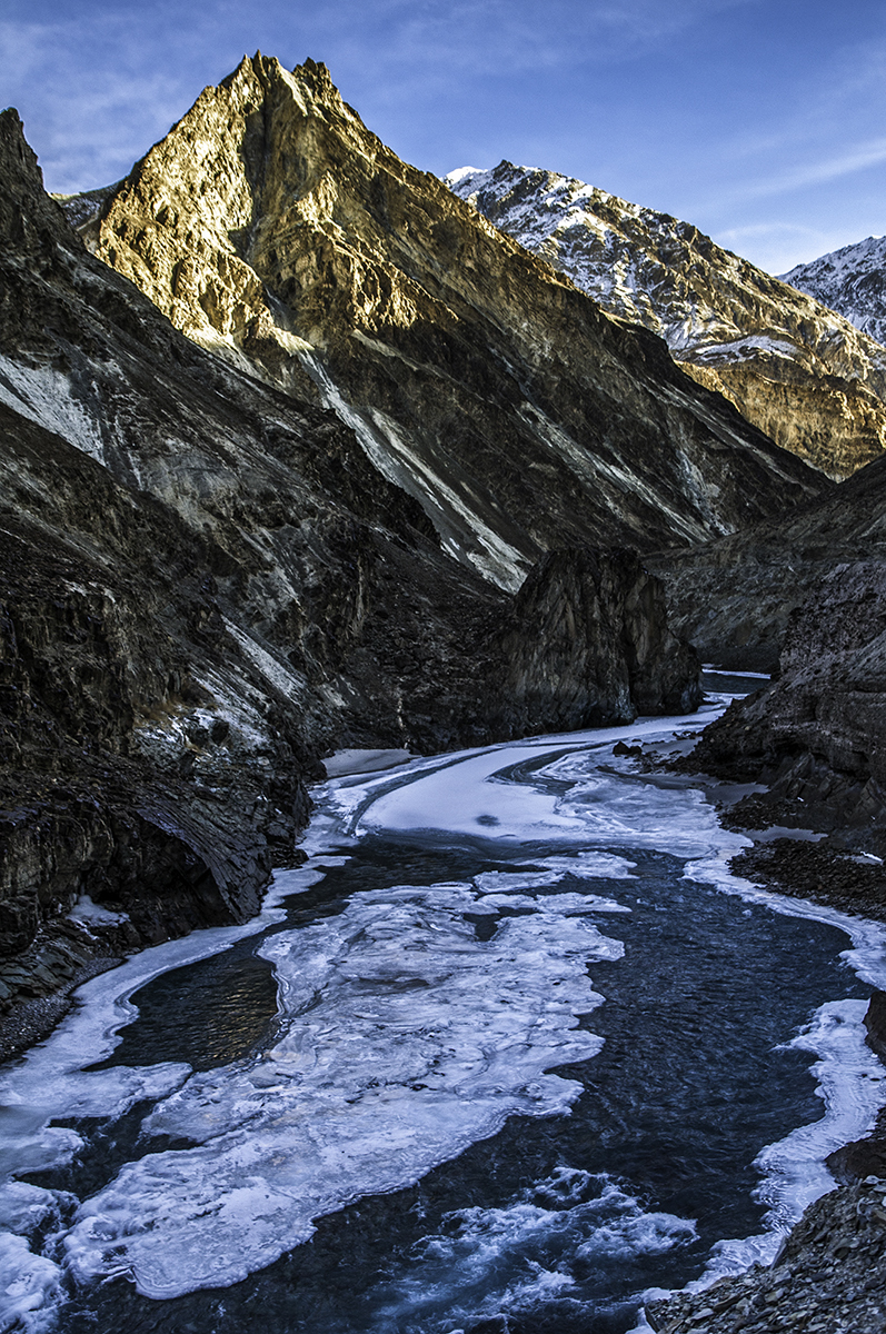 The river Zanskar is a triburatry of the mighty Indus river. In winter the river is frozen completely and can be trecked. One such shot